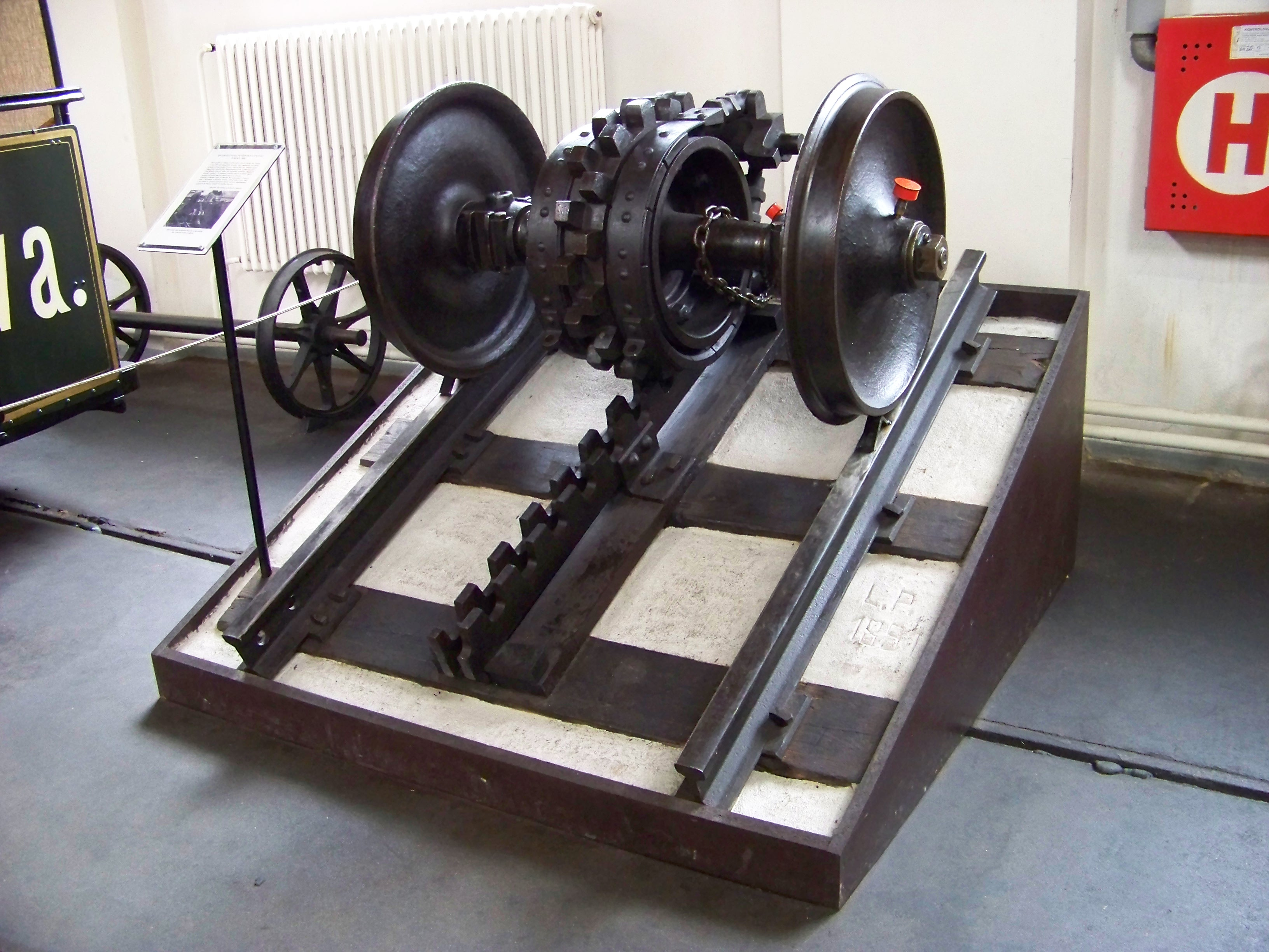 Prague-Střešovice, Czech Republic. Střešovice tram depot, Public Transport Museum. original parts of Petřín funicular.